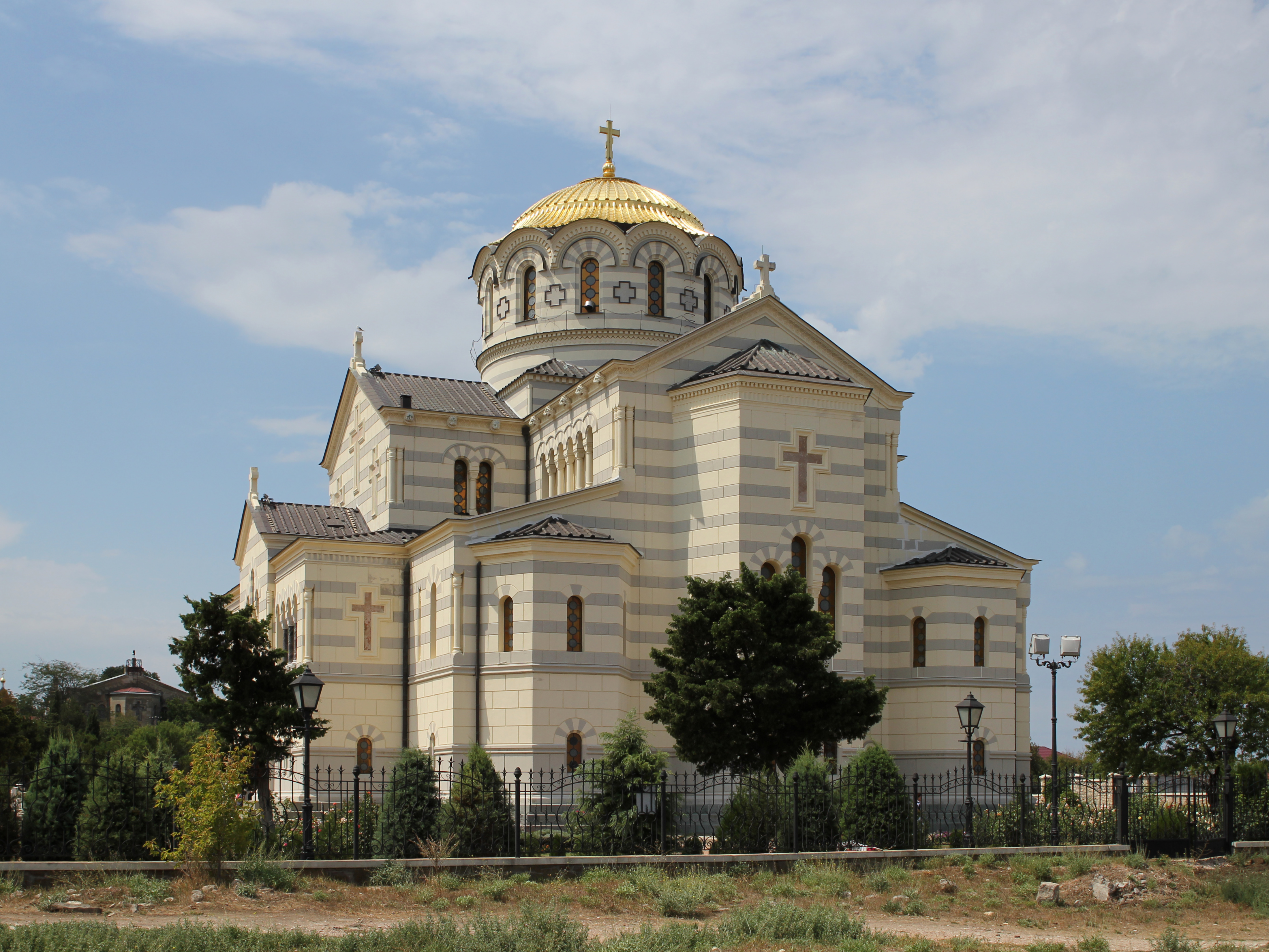 Cathedral of Saint Vladimir in Chersonesos. Designed by David Grimm in 1859, structure built in 1861-1879, finishes completed 1883-1891